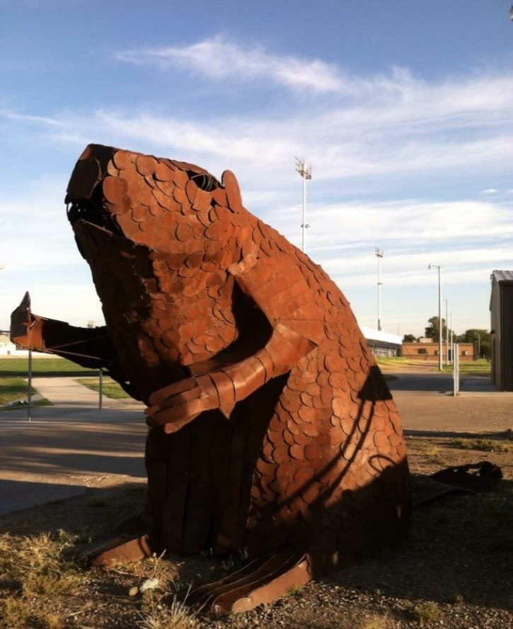 Take your photo with a giant beaver!